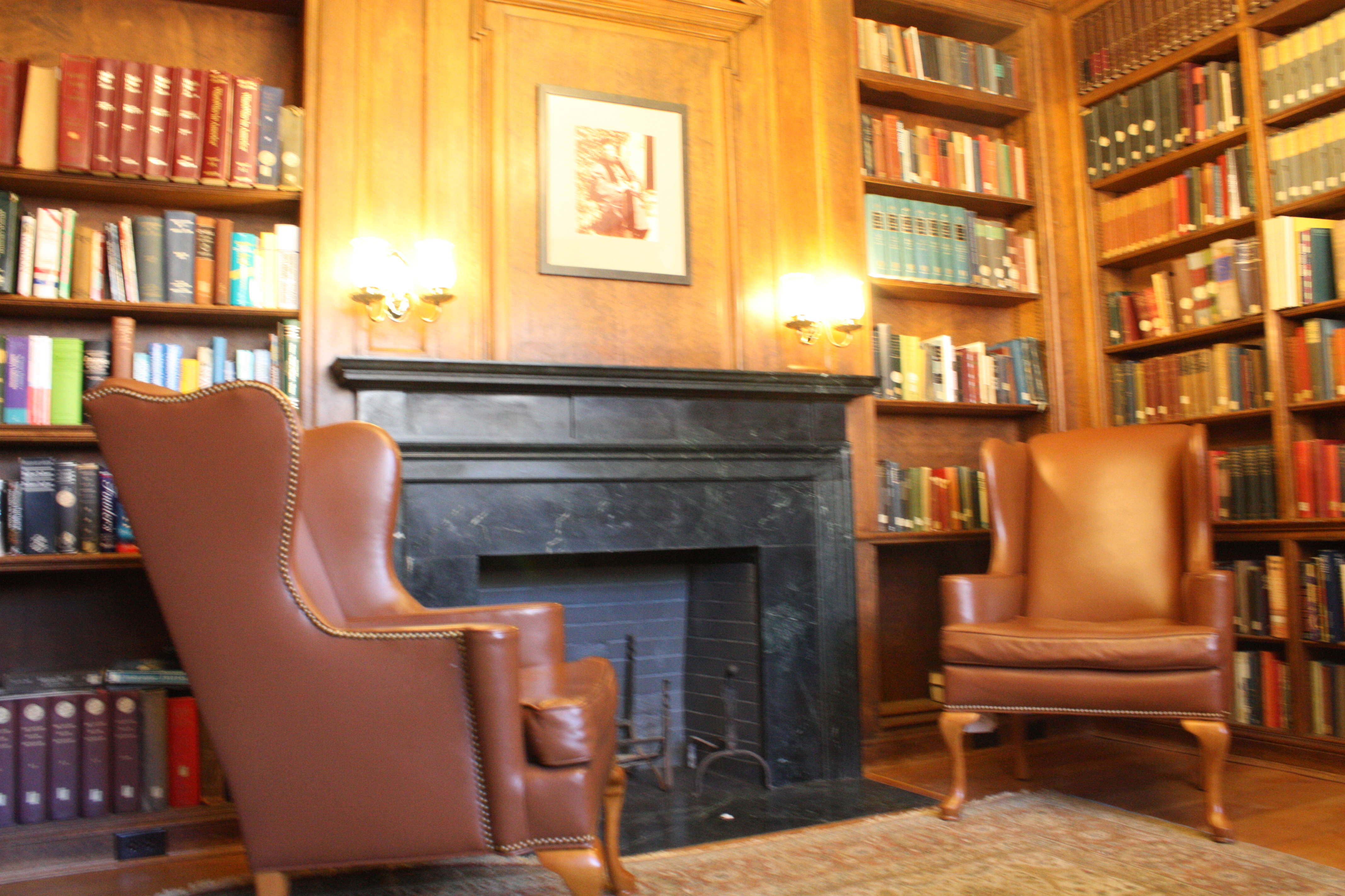 For quiet reading